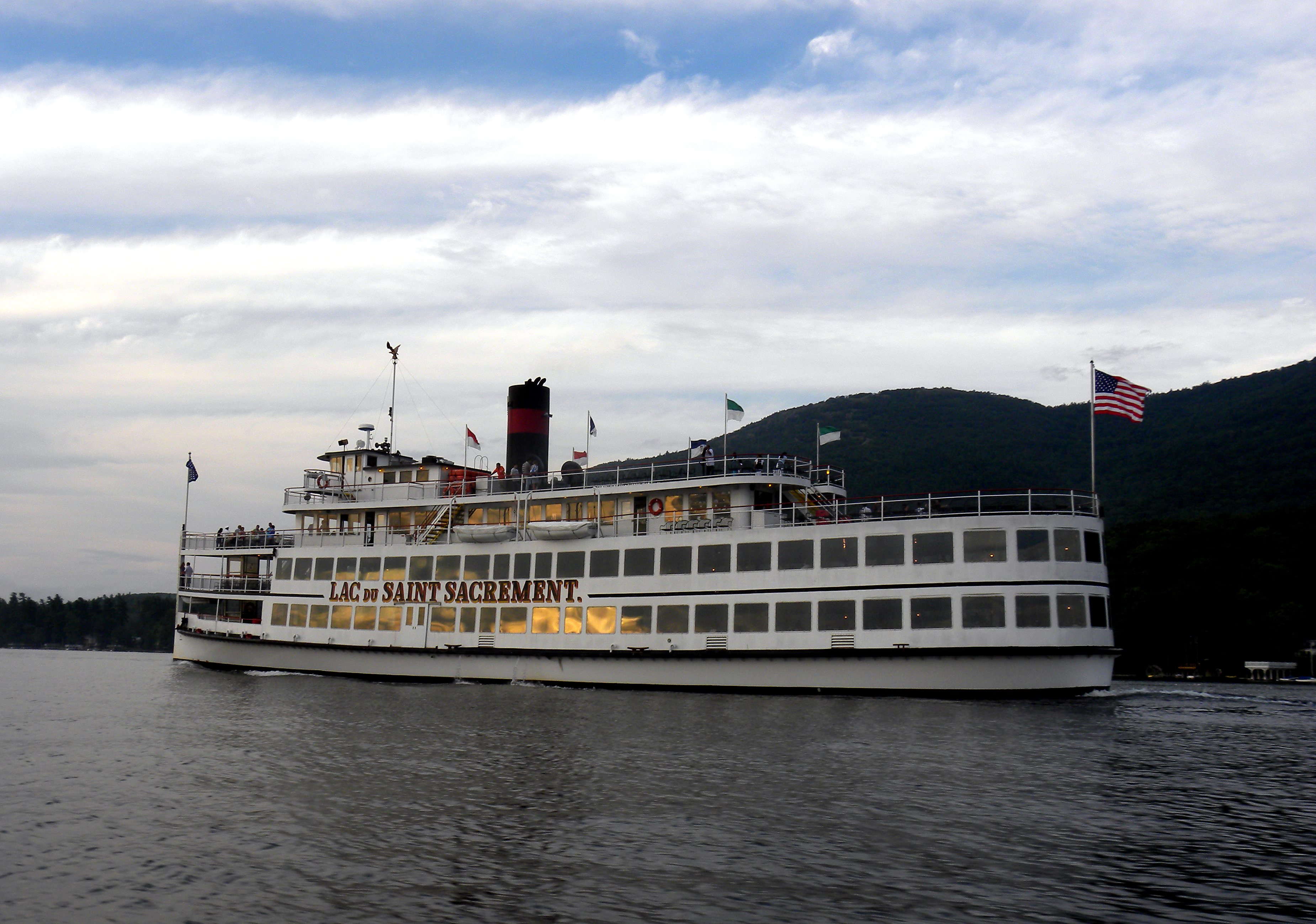 Lake George is a long, narrow lake draining northwards into Lake Champlain and the St. Lawrence River Drainage basin located at the southeast base of the Adirondack Mountains in northern New York, USA.